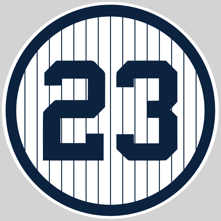 Image represents the current version of Don Mattingly's No. 23 seen in Monument Park in Yankee Stadium